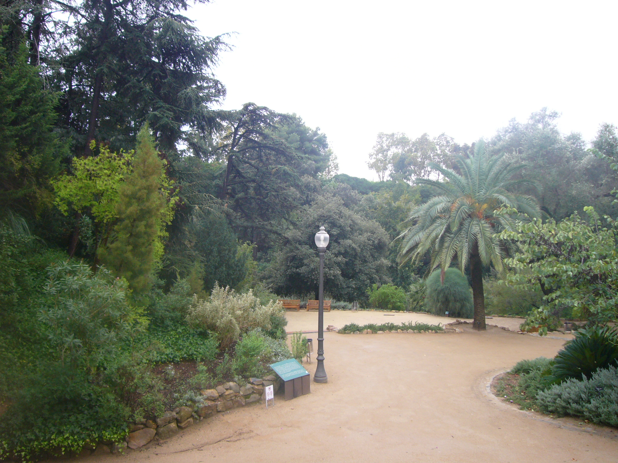 Historic Botanical Garden of Barcelona